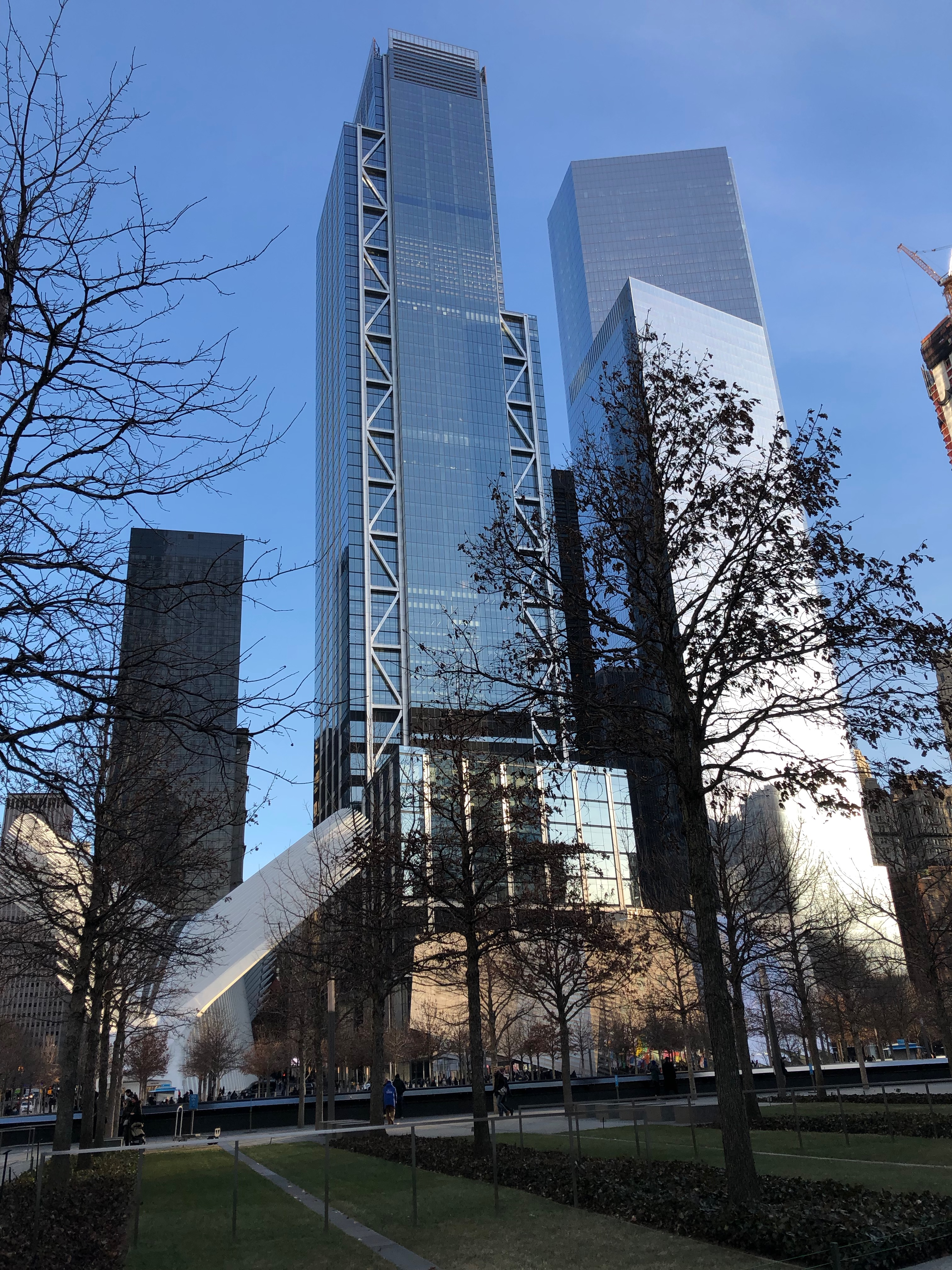 PATH station, Three and Four World Trade center, and the 9/11 Memorial as of janvuary 2019